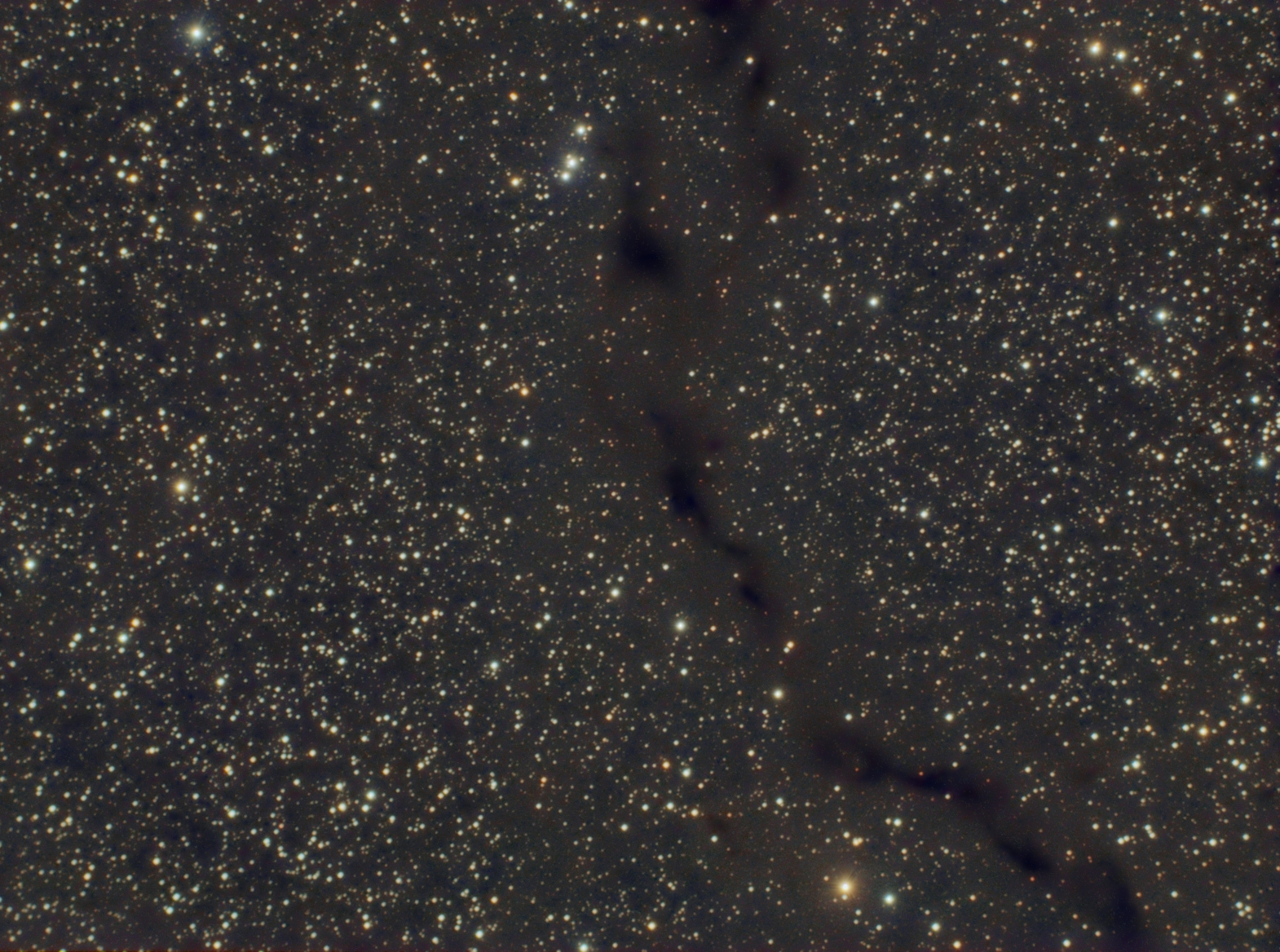 Almost four hour and an half shot on Barnard 150 with a little telescope